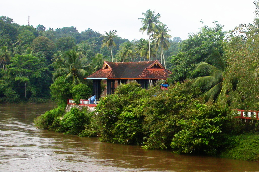 ThazhoorTempleView temple